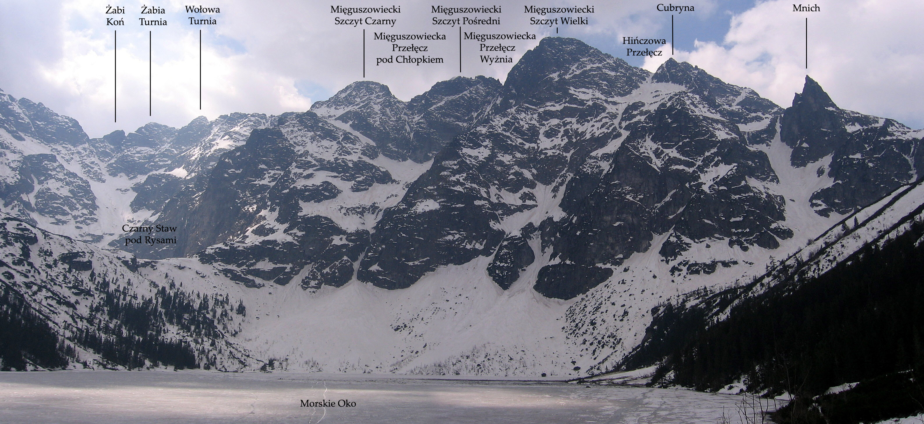 Peaks surrounding Morskie Oko - view from Morskie Oko, Tatra Mountains, Poland